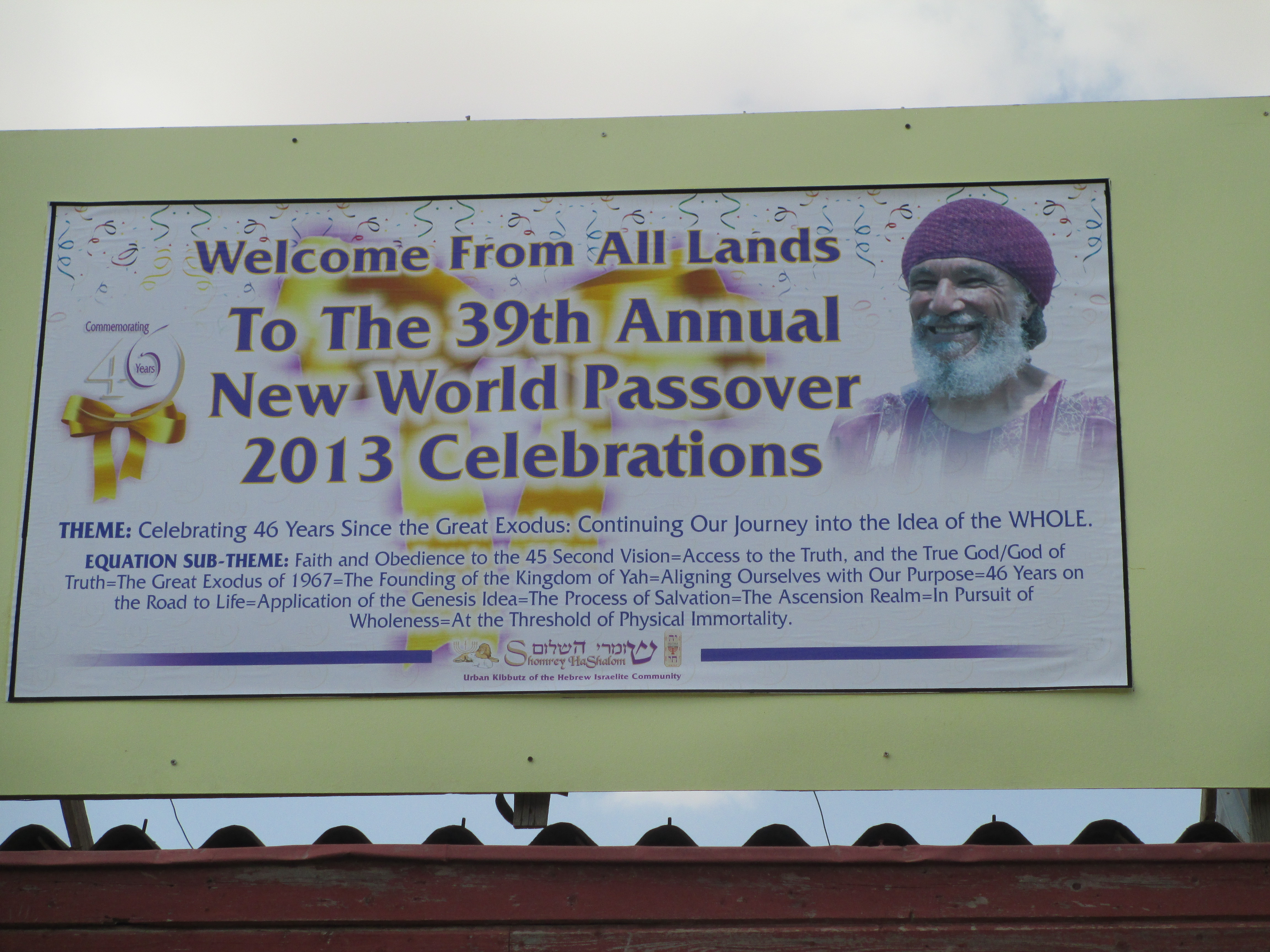 Africans Hebrew Israelites in Dimona